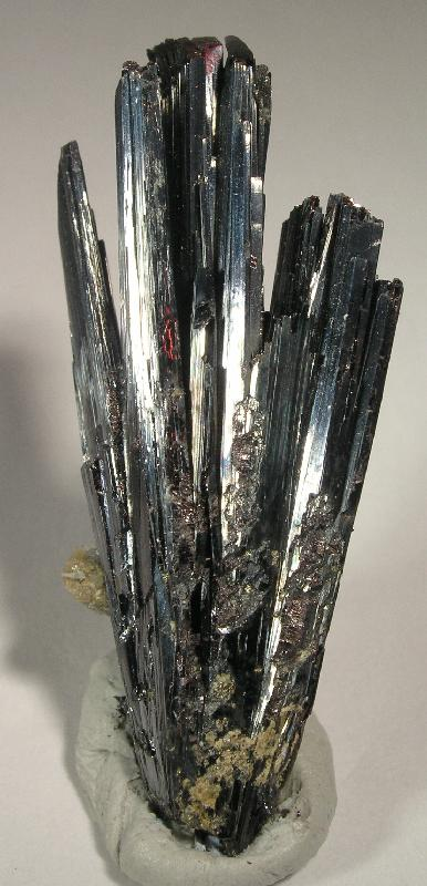 Kermesite Locality: Que Que, Midlands province, Zimbabwe Size: miniature, 3.3 x 1.3 x .5 cm Kermesite This is perhaps the best Kermesite that I have seen for sale from this classic old locality , probably 30-40 years out of the ground. While the superb luster and striated surfaces certainly match other specimens, the individual crystals in this cluster give this an aesthetic definition not often found in the oft-intergrown specimens you see from here. A distictive thumb, and important for what it is. 3.3 x 1.3 x .5 cm